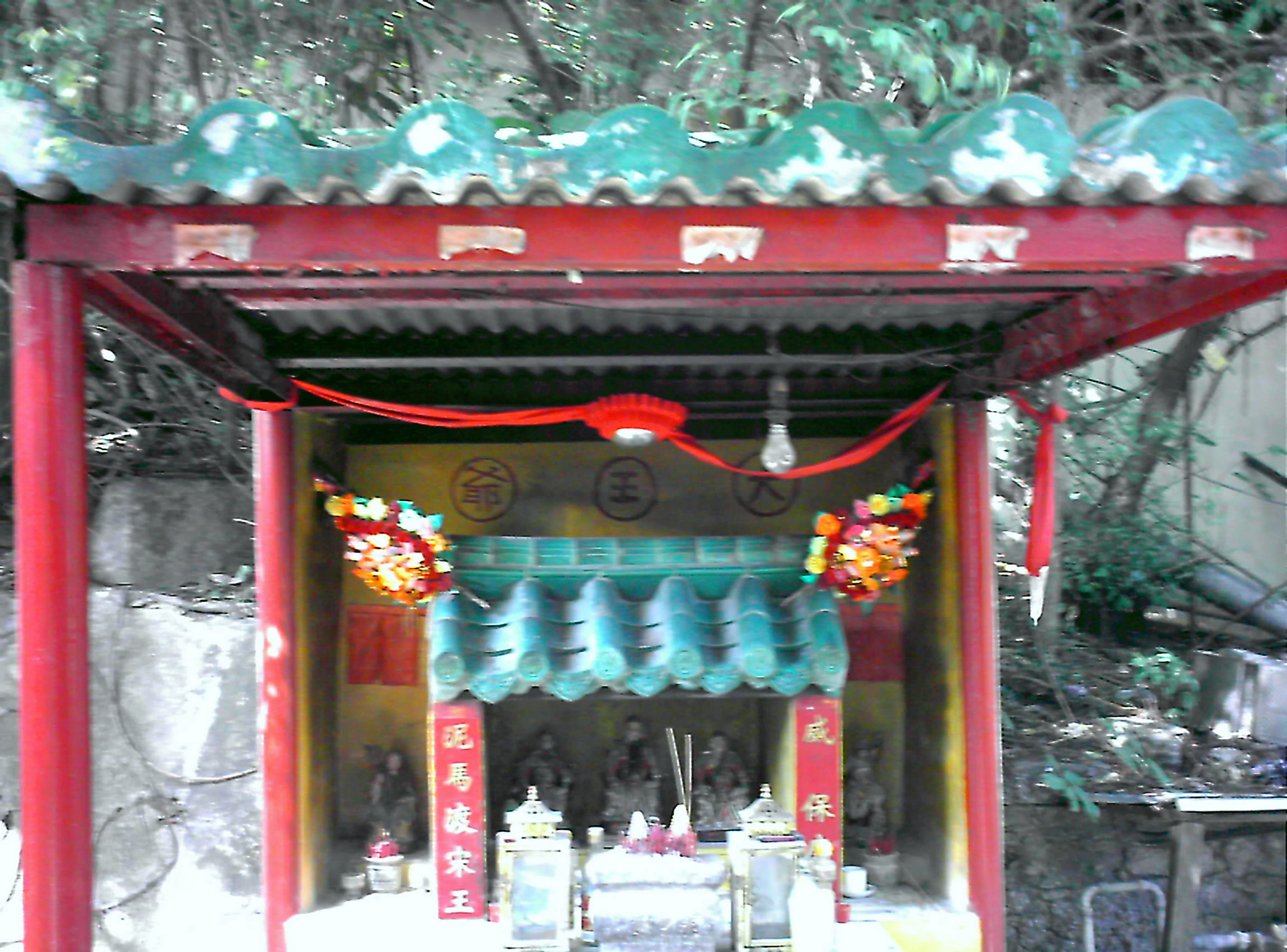 Tse Yeung Tung Side Hall 中文（香港）: 紫陽洞佛堂的大王殿